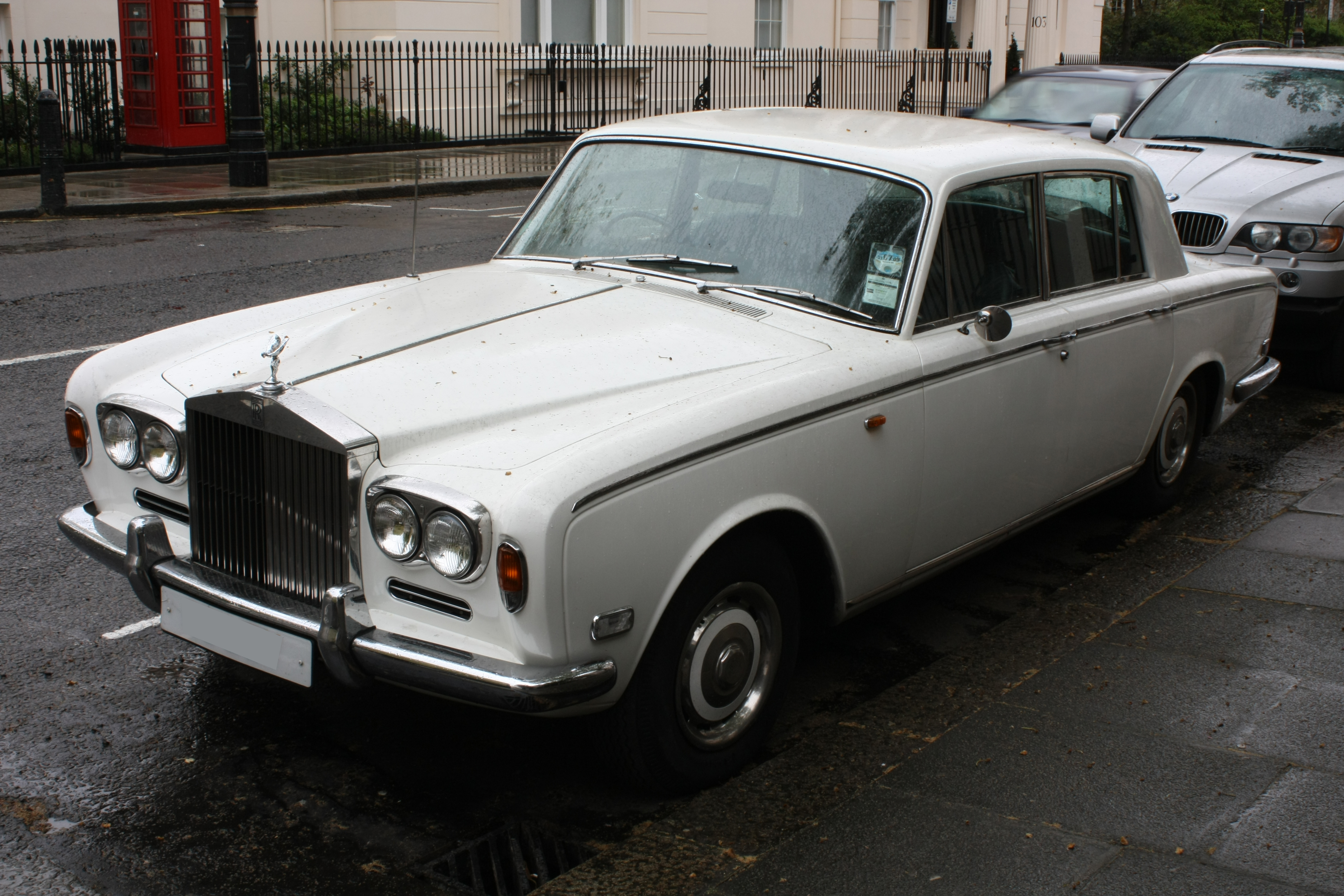 Rolls-Royce Silver Shadow